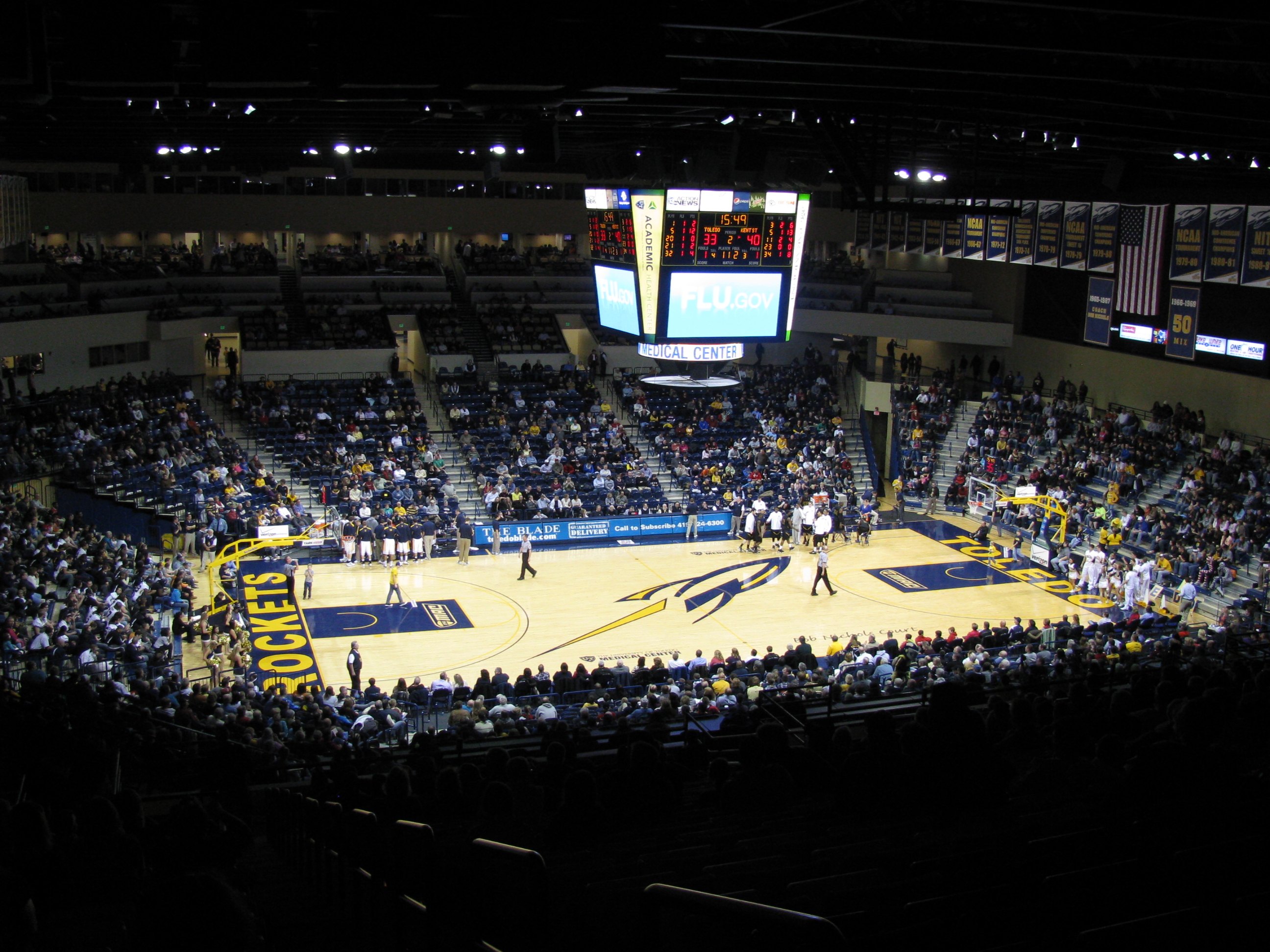 Interior view of Savage Arena on the campus of the University of Toledo in Toledo, Ohio, USA, showing the side of the arena that features the team benches, press area, and luxury boxes